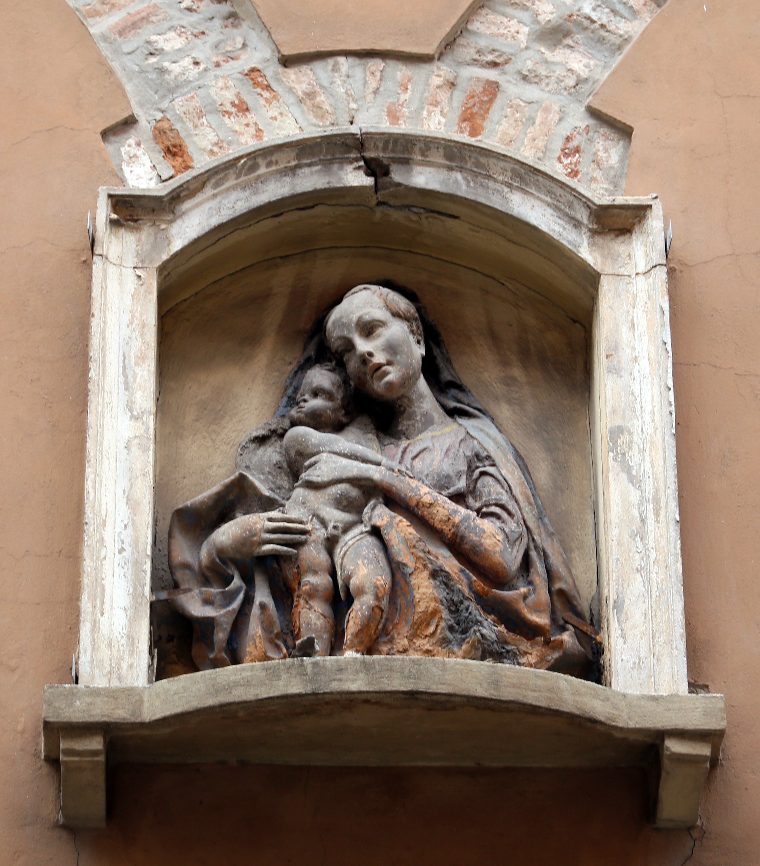 Ferrara